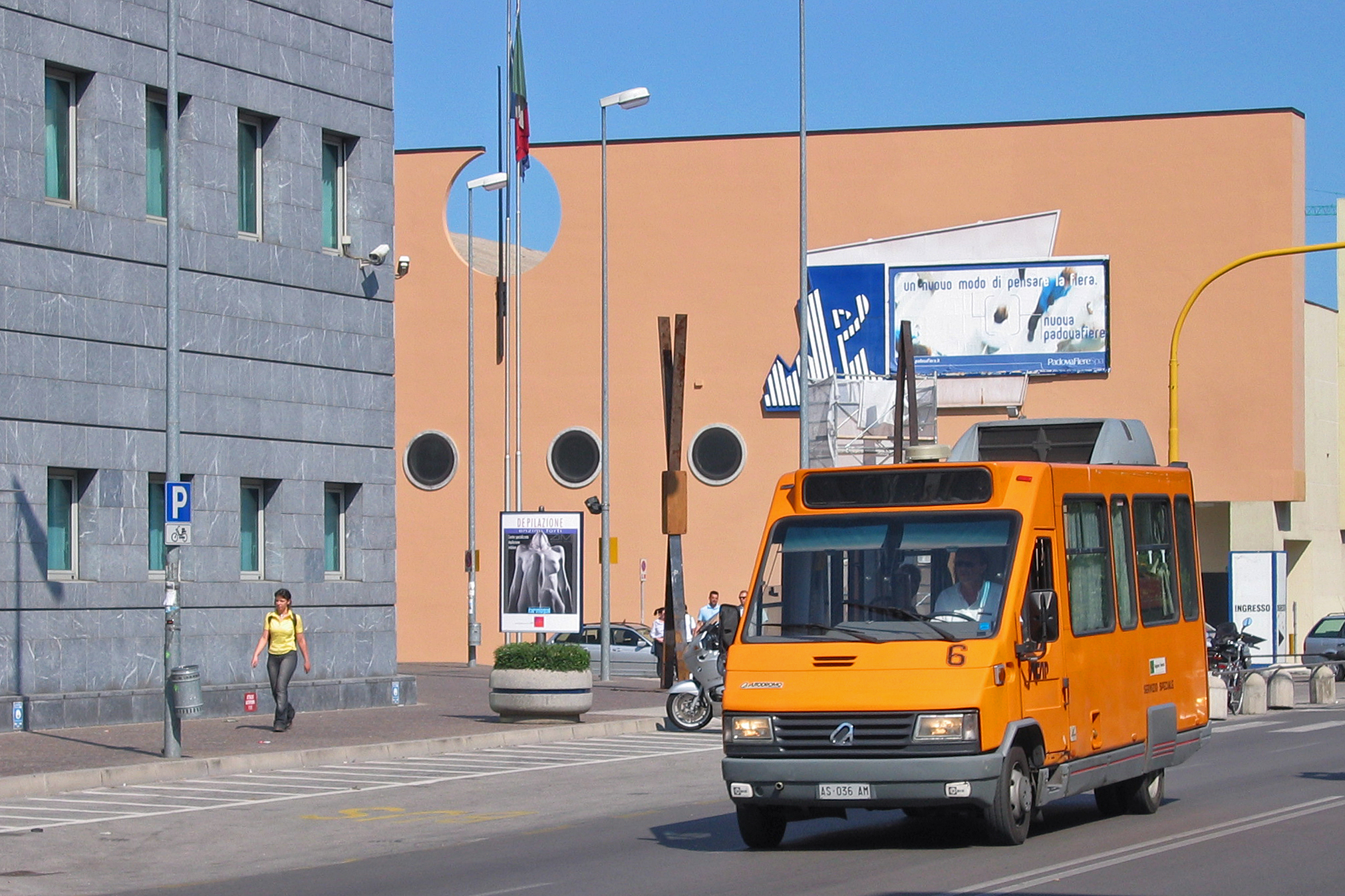 Autodromo Pollicino bus (#6, reg. AS 036 AM) with Iveco A49 TurboDaily chassis in Padua, Italy. APS Mobilità, S.p.A. from Padua (Padova) operator.